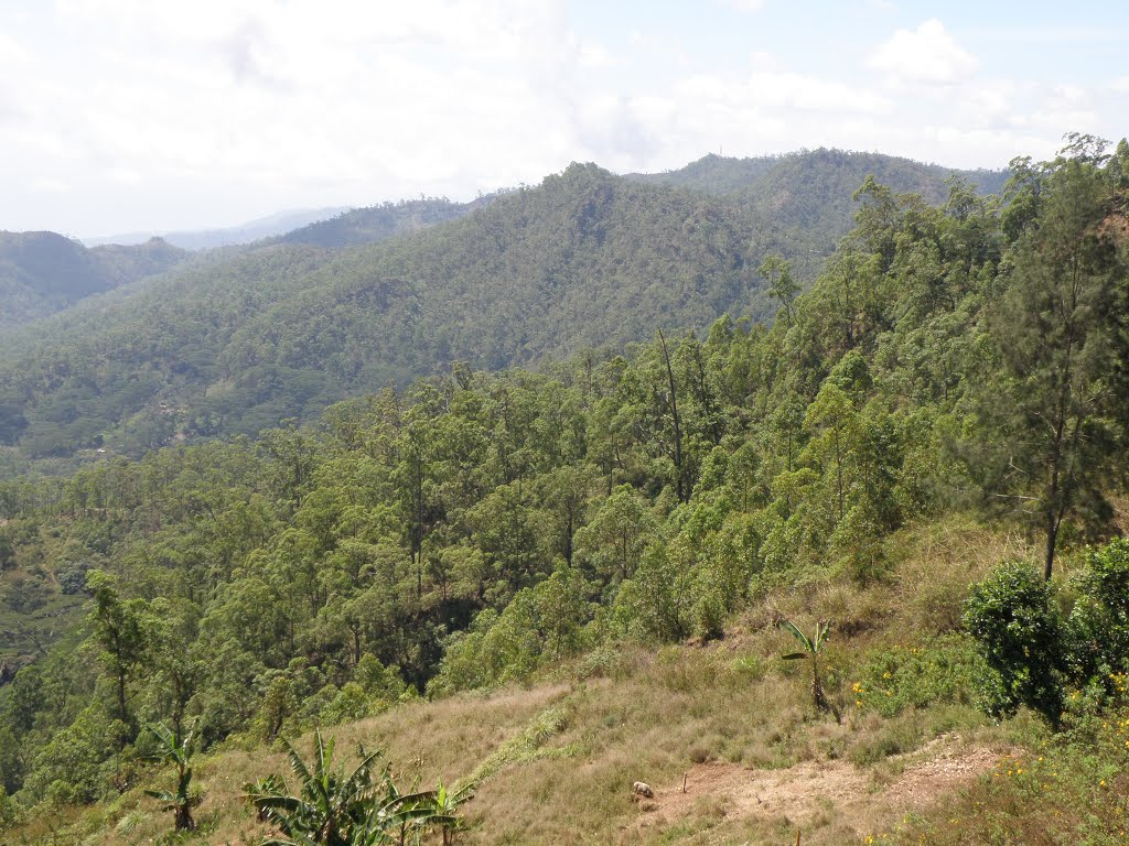 Extensive Eucalyptus urophylla, a montane Eucalypt, about 25 km south of Dili along the Aileu Road. Suco Madabeno